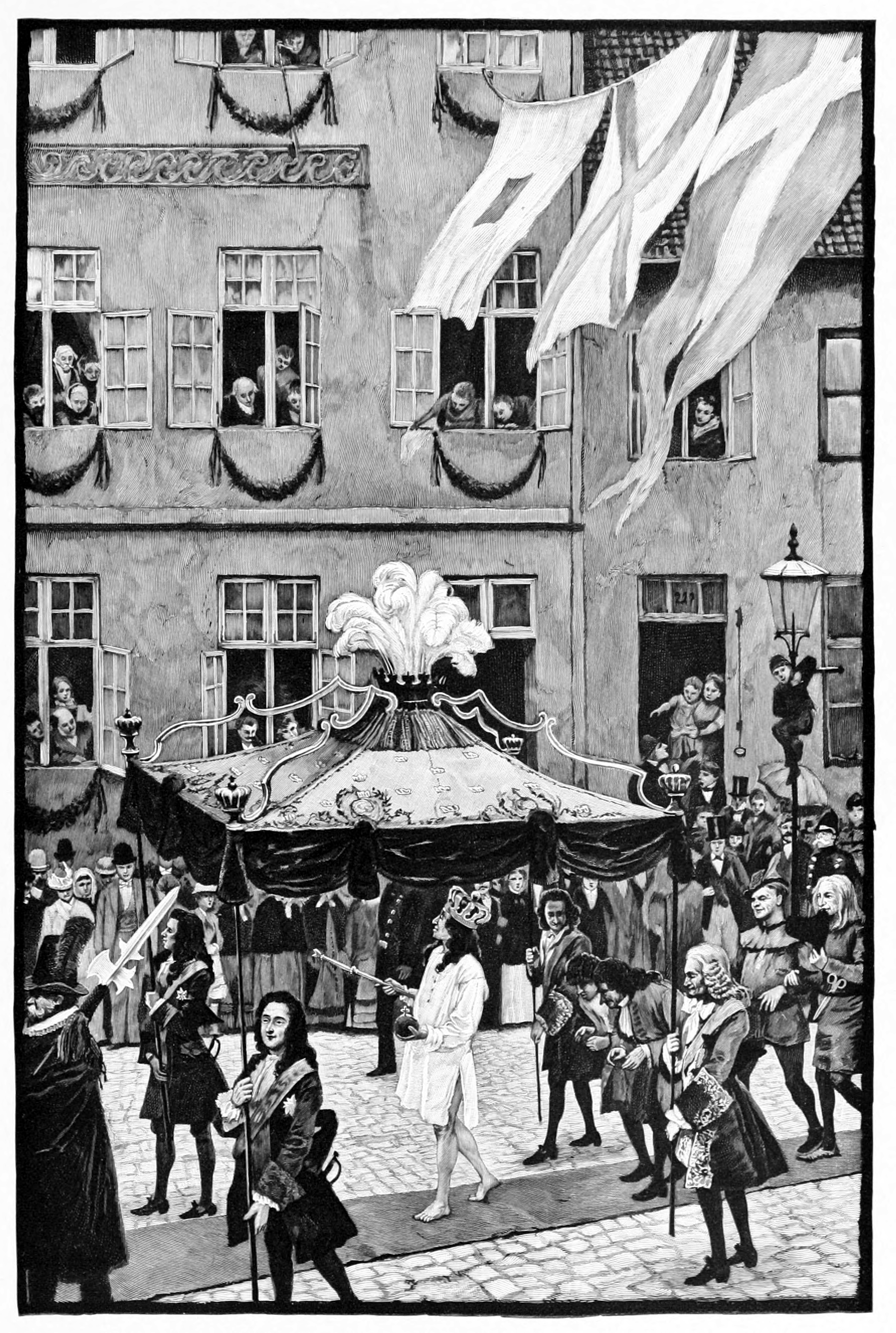 Scan of illustration in Fairy tales and stories (1900). Andersen, H. C. (Hans Christian), 1805-1875; Tegner, Hans, b. 1853, ill; Brækstad, H. L. (Hans Lien), 1845-1915 New York: The Century Co.